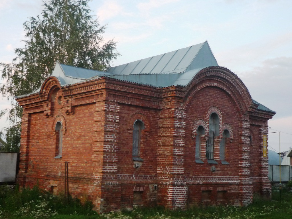 Trinity Church, Sloboda, Ukraine, beginning of the XXth century